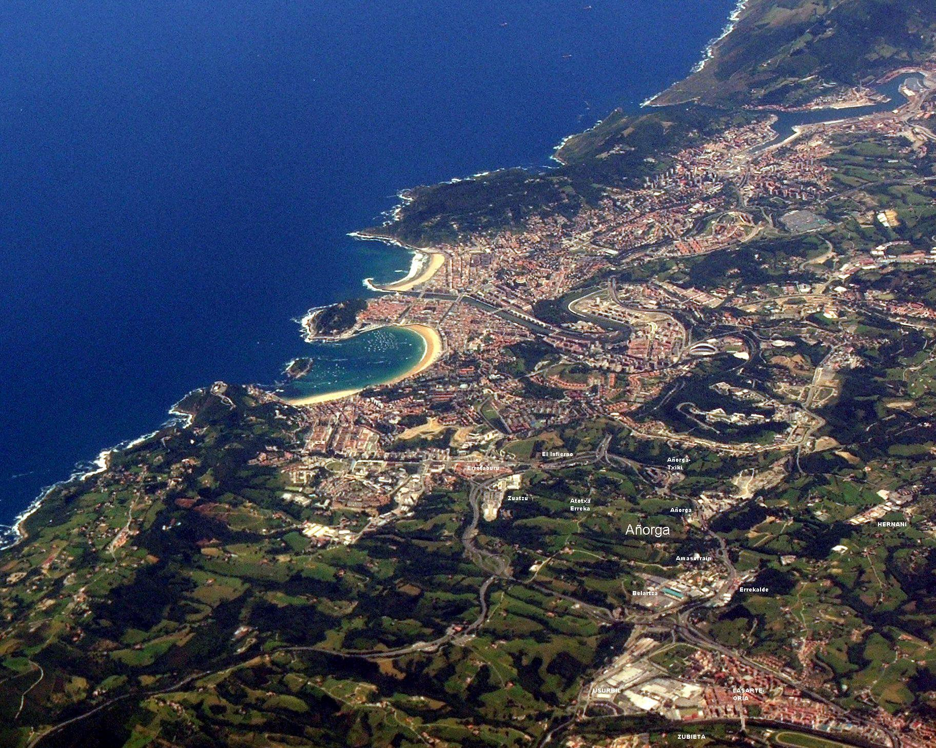 Añorga neighbourhood, San Sebastian, Span. Aerial view